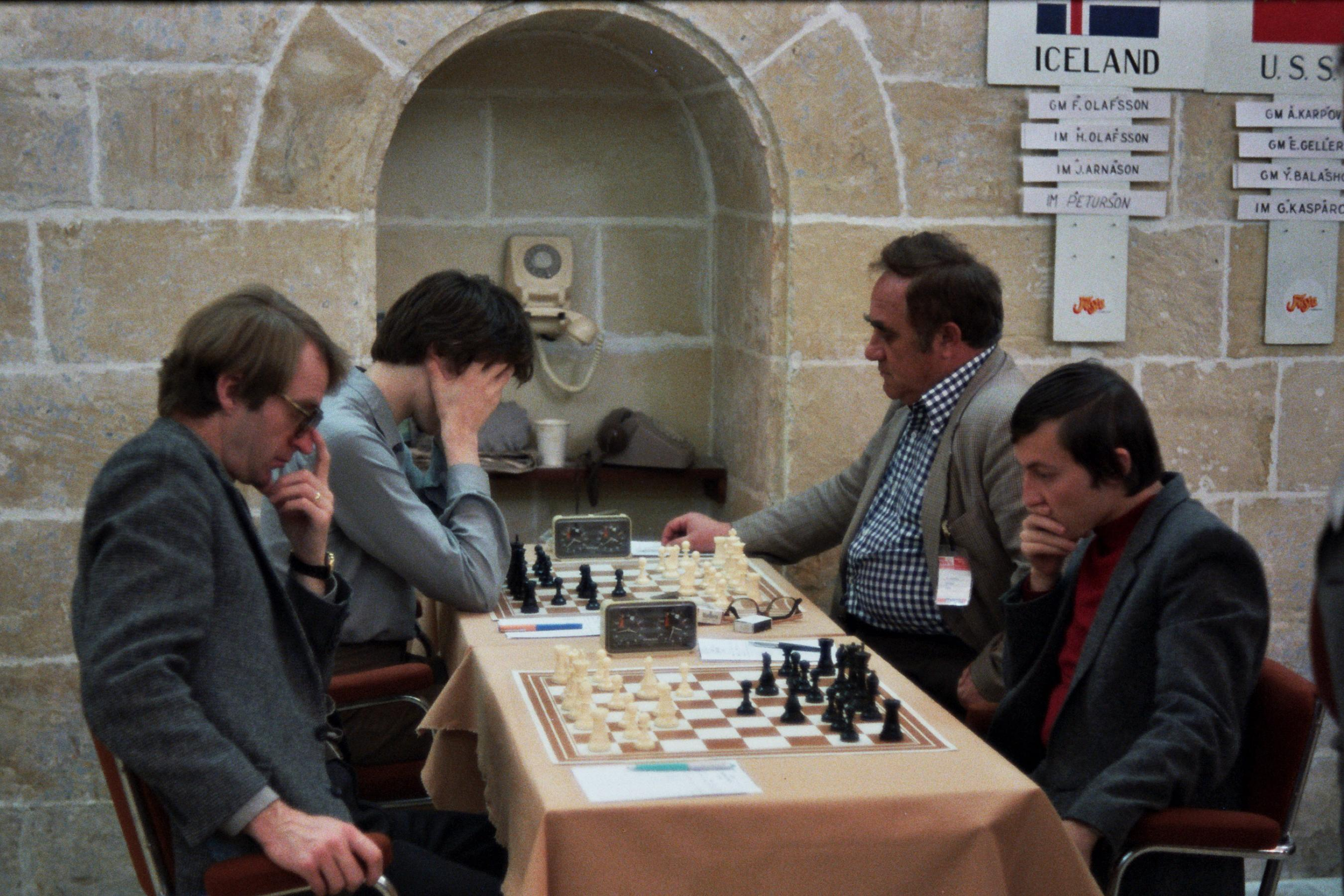 USSR, Olympic champion of men (Anatoly Karpov and Efim Geller), and FIDE president Friðrik Ólafsson, Malta 1980, Photographer Gerhard Hund.